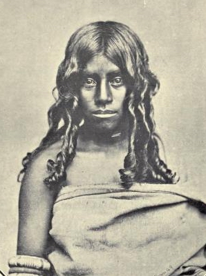 From a book Castes and tribes of southern India Author Edgar Thurston 1855-1935 Publish Data 1909